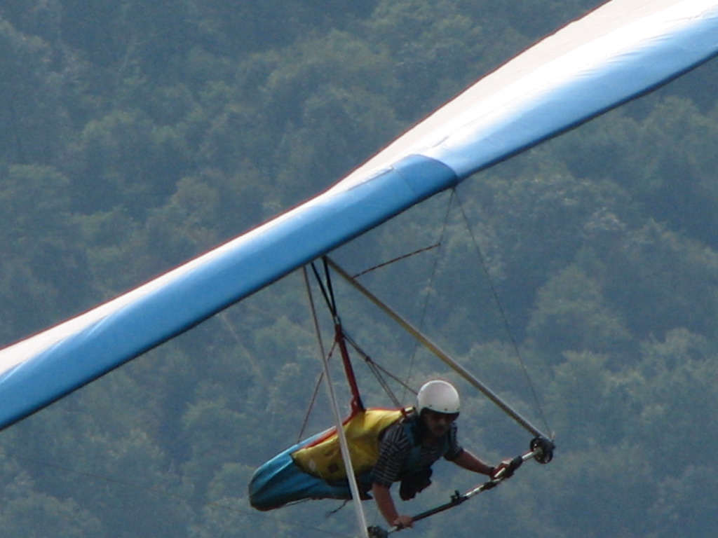 They went off the top of Hyner State Park Lookout on Labor Day 2006.